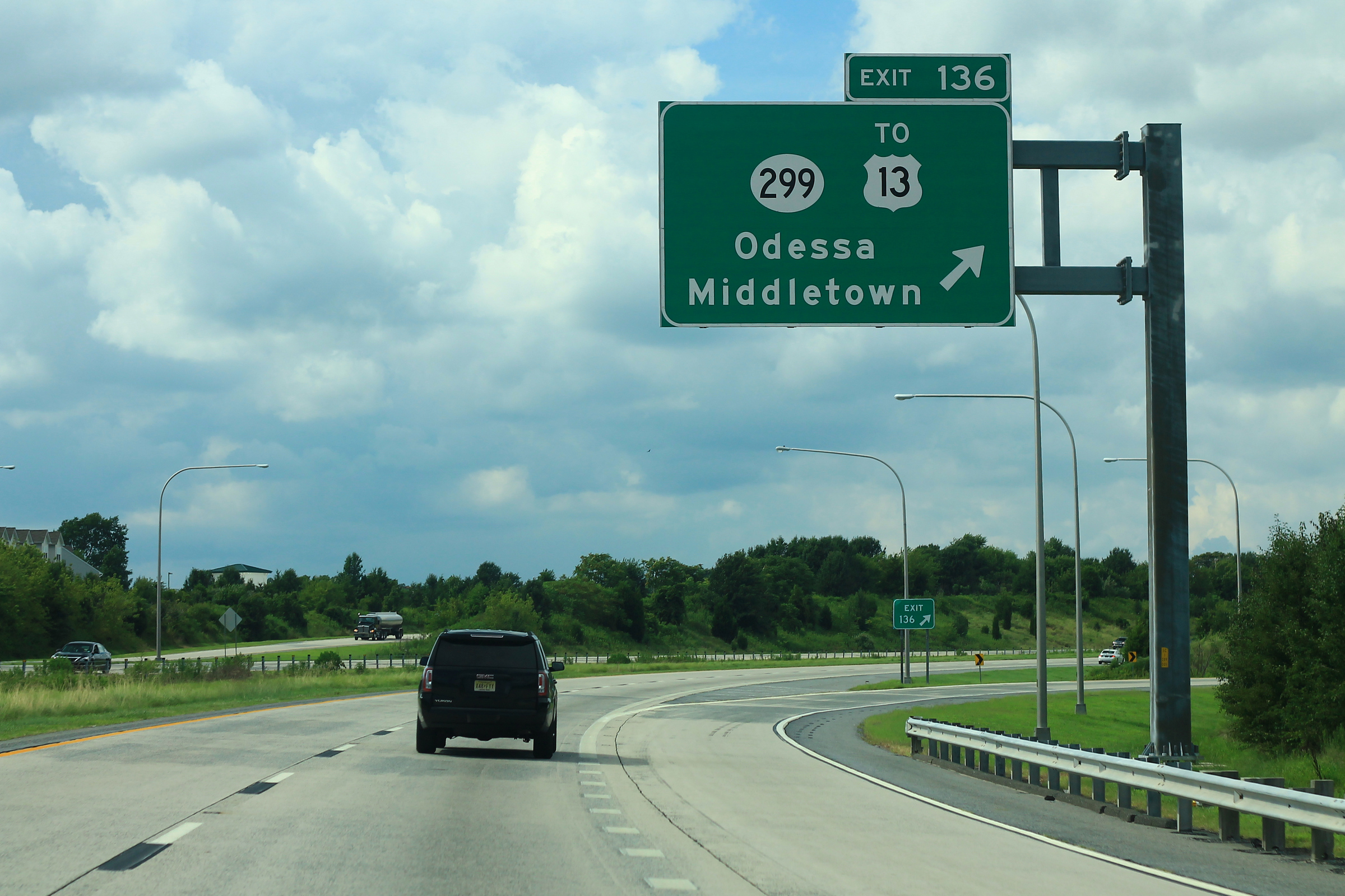 DE1 North - Exit 136 - De299 To US13